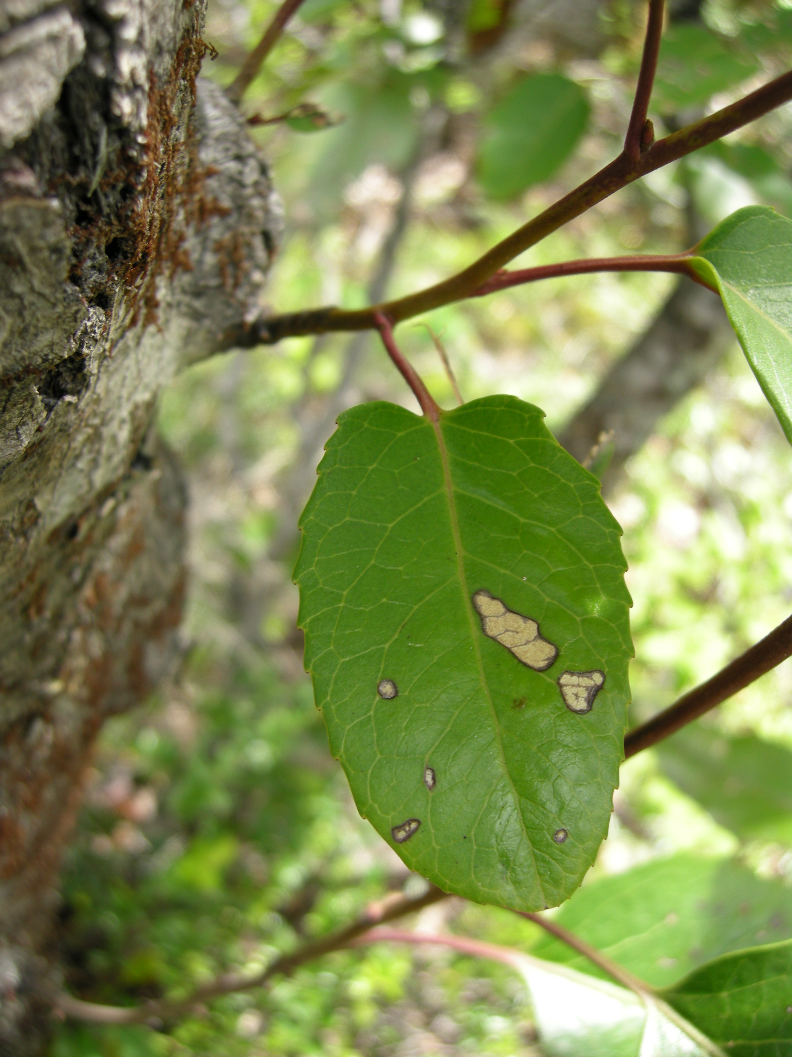 Leave of Lomatia hirsuta. Picture taken in Los Alerces National Park (Chubut province, Argentina).